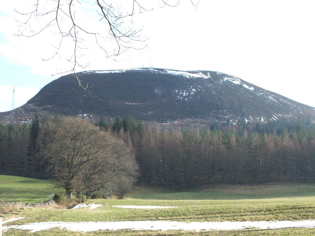 Ord Hill. Ord Hill (cnoc Udais) dominates the western skyline of Muir-of-Ord. Auchmore forest can be seen in the foreground.